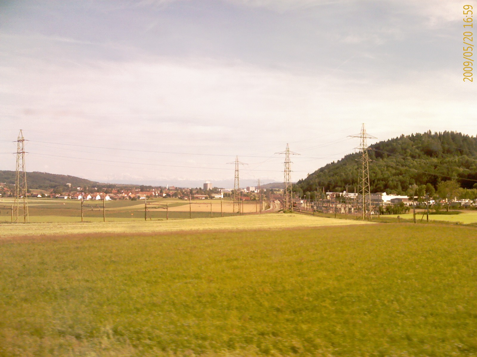 View from train between Lenzburg and Othmarsingen to Hendschiken and Dottikon, canton of Aargau, Switzerland